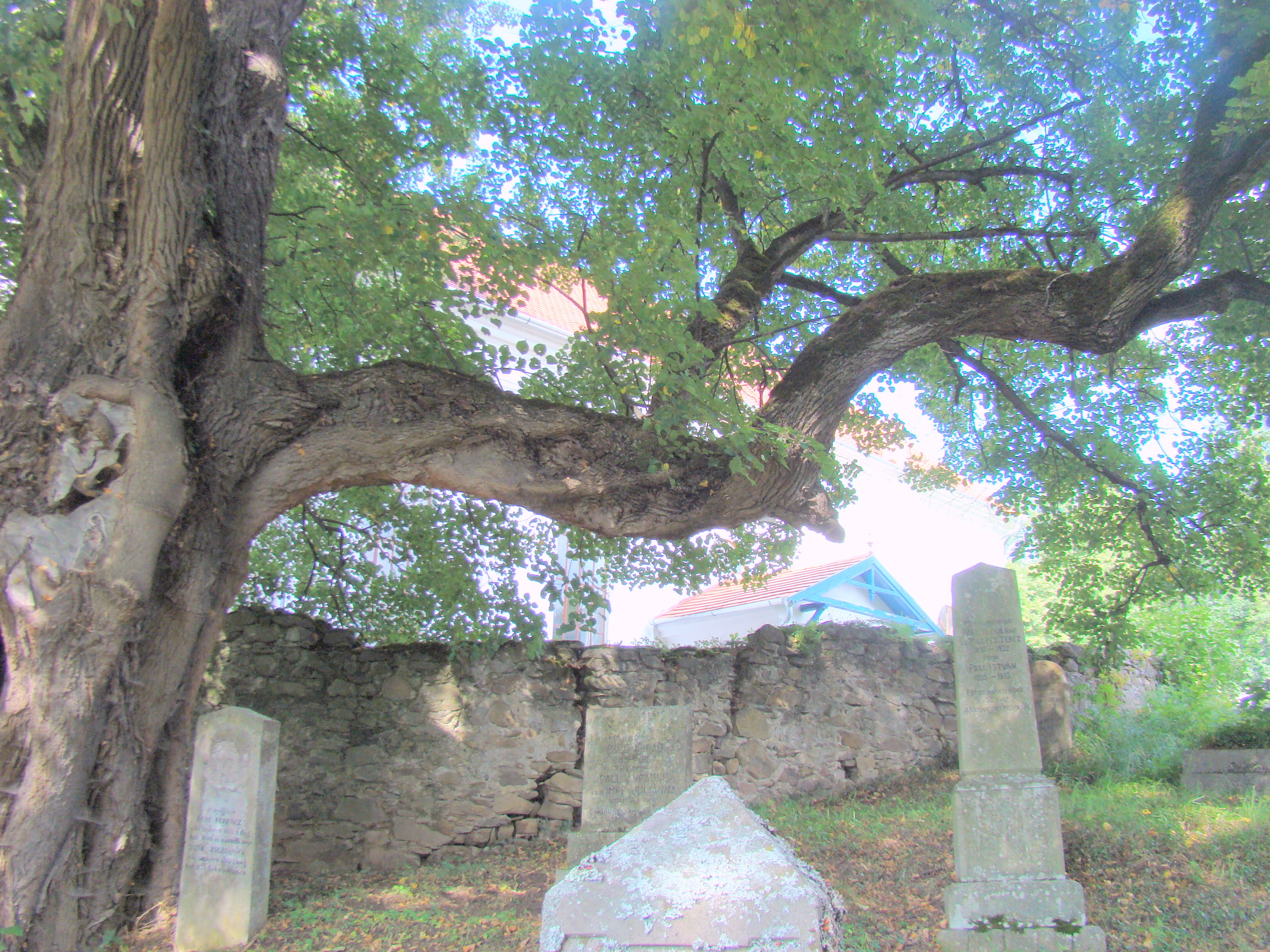 Reformed church in Bicfalău, Covasna County, Romania